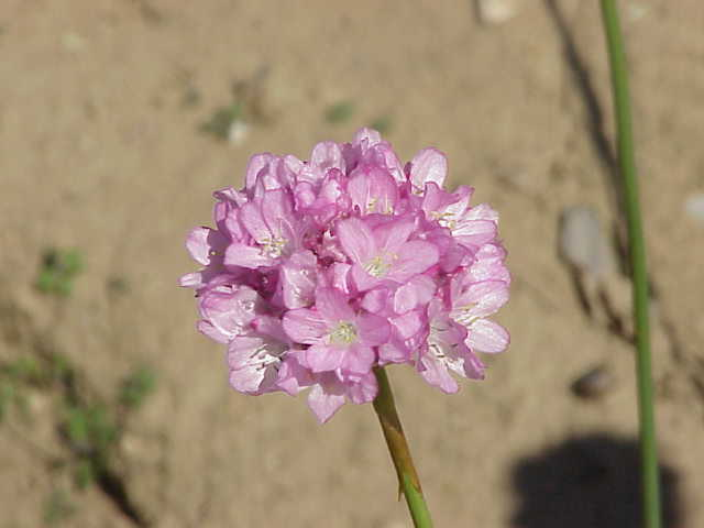 Species: Armeria alliacea Family: Plumbaginaceae Image No. 1